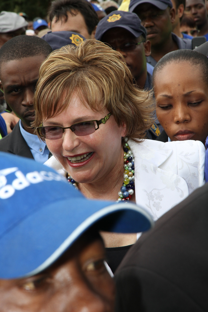 Helen Zille, at a Freedom Day Rally at Soloman Mahlangu Freedom Square in Mamelodi, Tshwane.